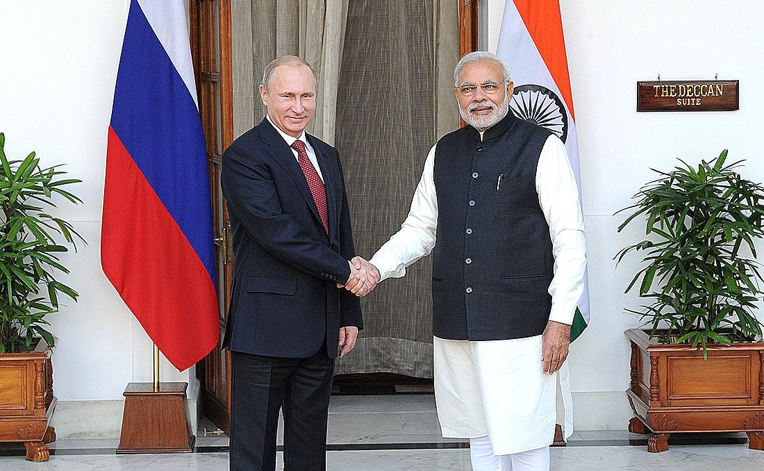 Narendra Modi and Vladimir Putin shake hands in New Delhi in 2014.